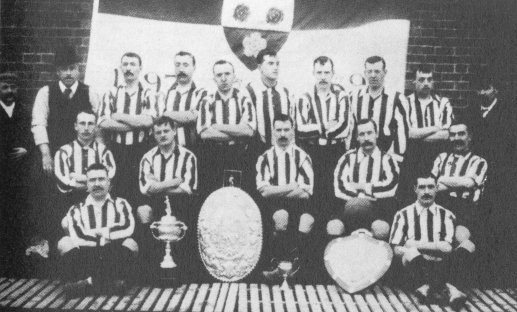 The Southampton FC team with the Southern League trophy at the start of the 1899-1900 season